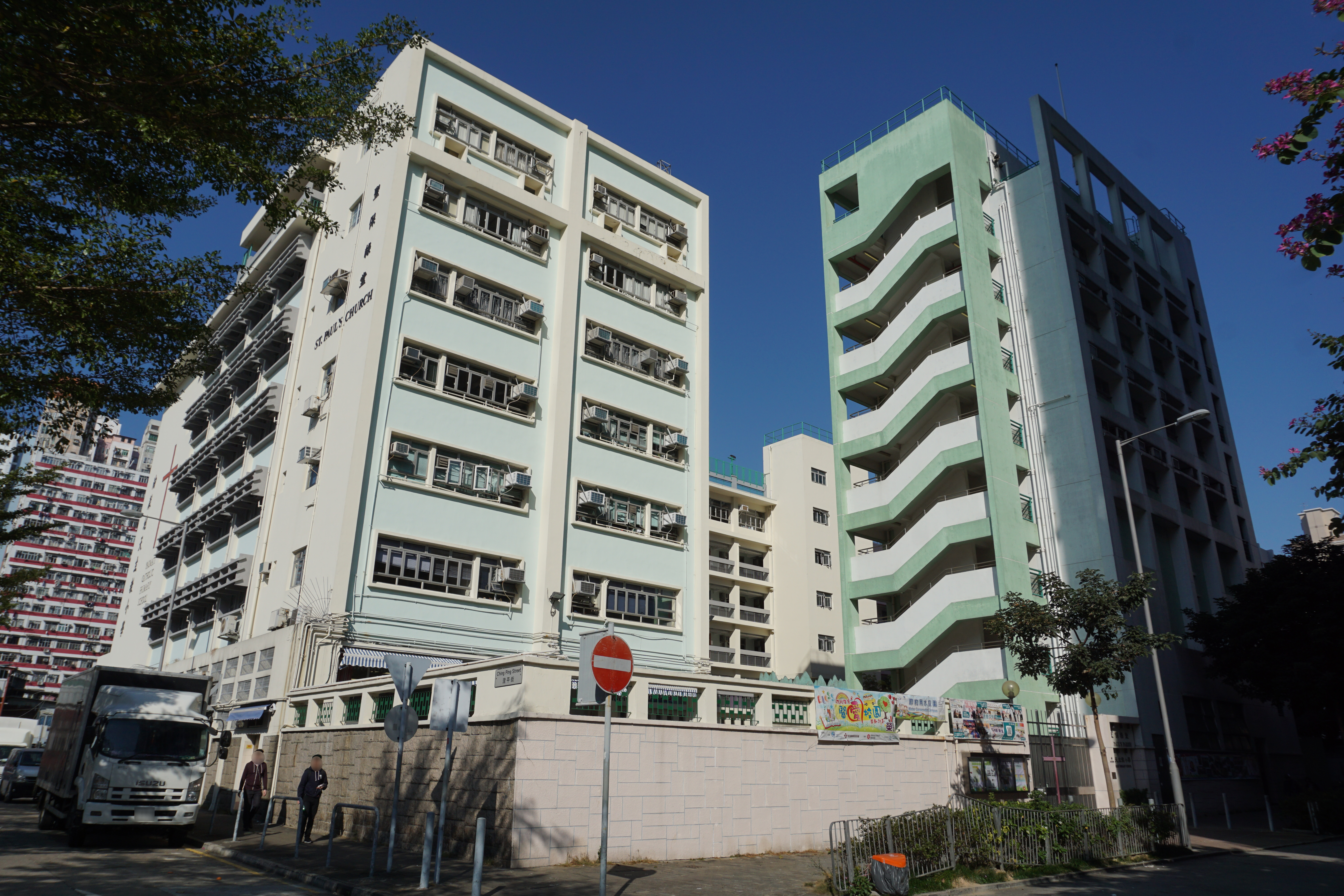 Yaumati Catholic Primary School in Yau Ma Tei, Hong Kong.